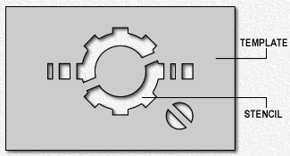 Stencil template example